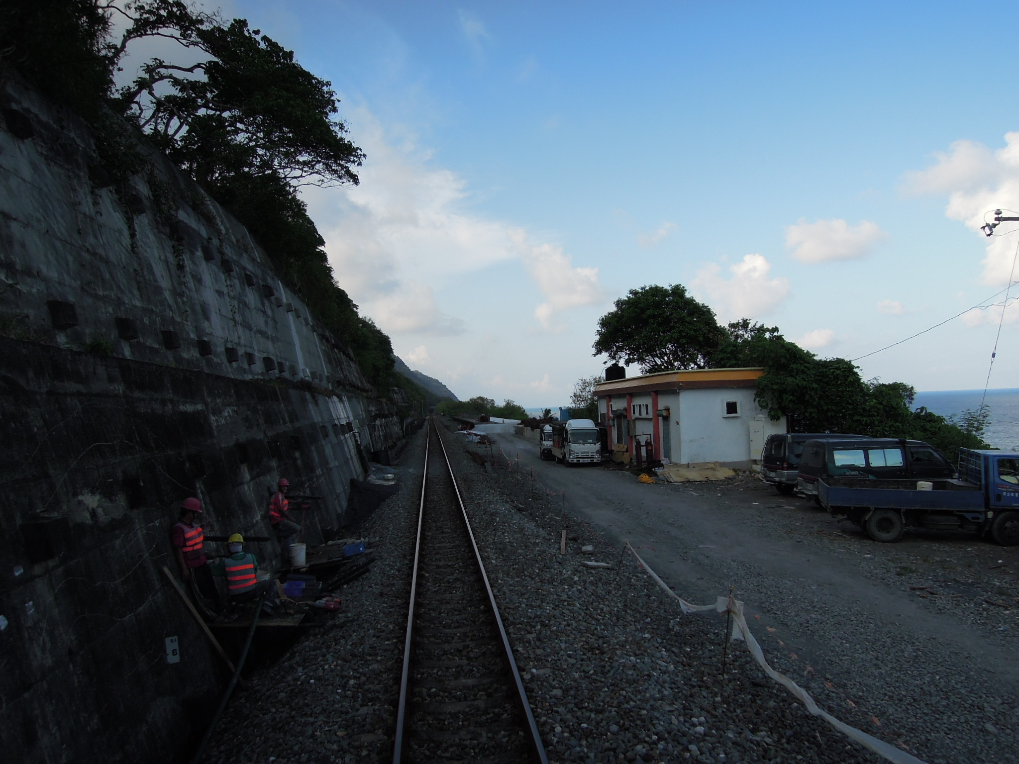 TRA Fushan station, Taitung, Taiwan